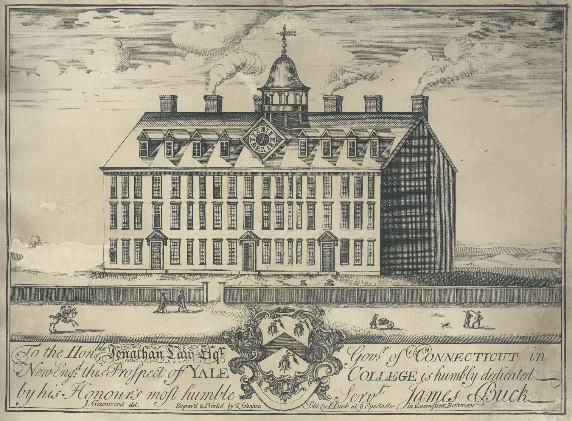 "Johnston's View of Yale College," etching and engraving, by the American printmaker John Greenwood, after a painting by Thomas Johnston (ca. 1708-1767).